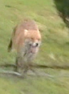 This is a still from video footage, taken at Bourton-on-the-Water, Gloucestershire, in March 2012, of a hunted fox. The footage formed part of evidence considered during a trial of The Heythrop Hunt, which was subsequently found guilty of hunting illegally.